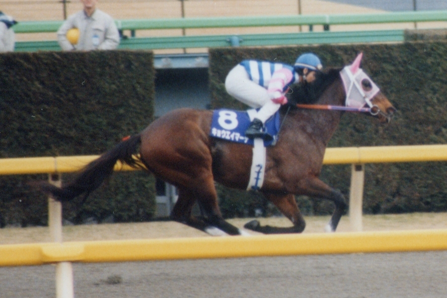 Kyoei March (horse)